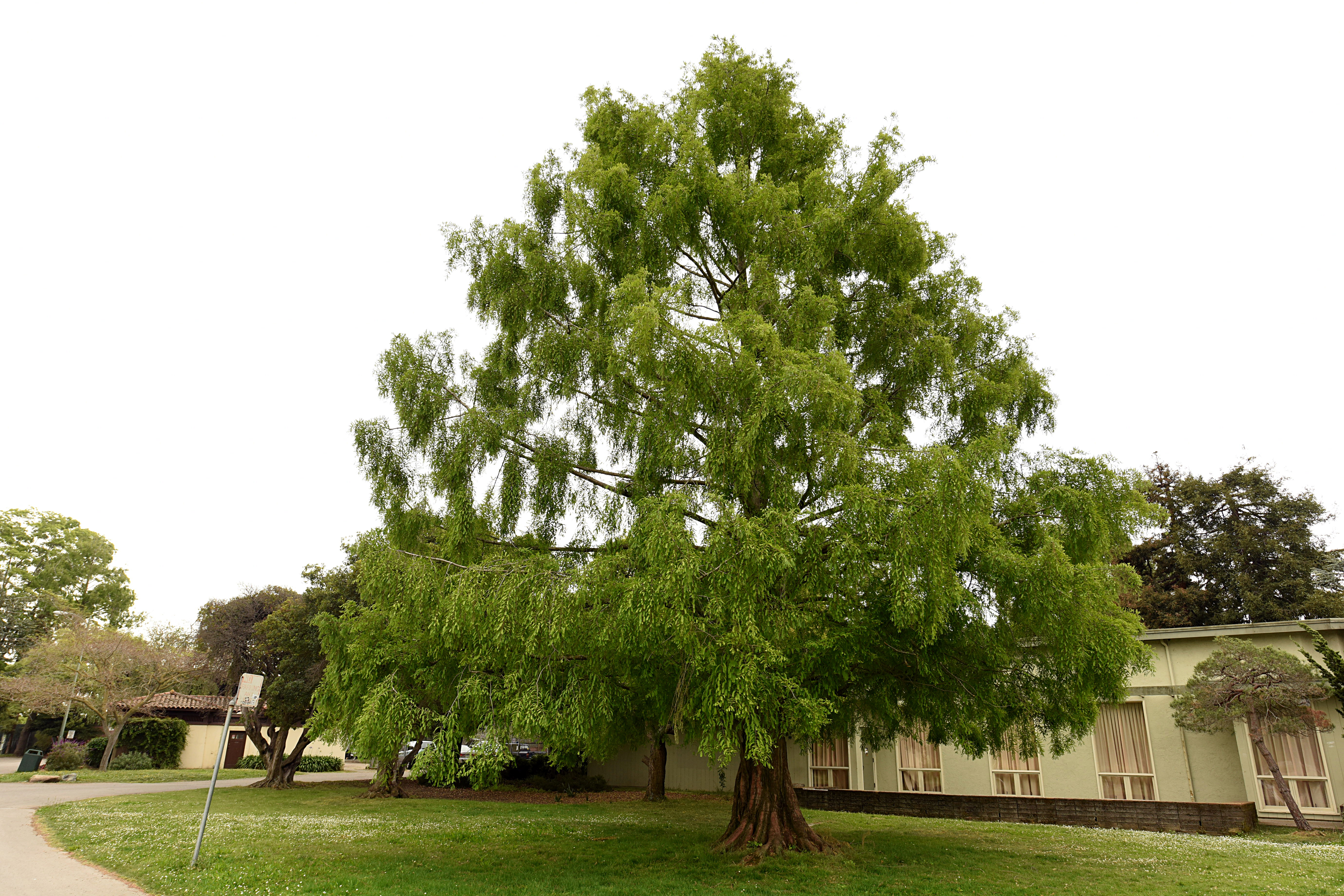 Metasequoia glyptostroboides, photographed near Lake Merritt in Oakland, California, USA. More photos of this tree are here